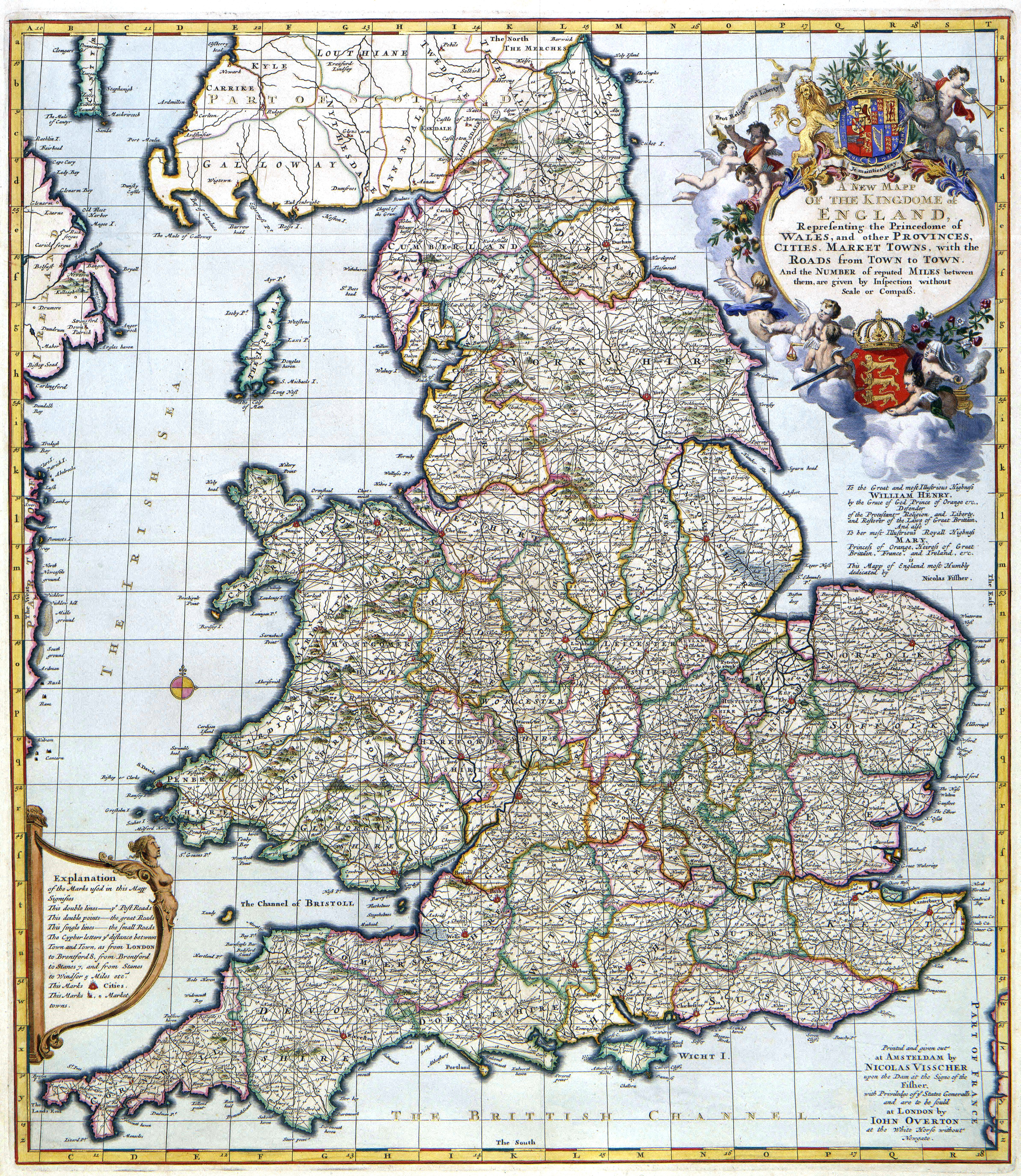 This map was the result of a collective publication by the Amsterdam publisher Nicolaes Visscher II (1649-1702) and the London publisher John Overton (1640-1713). The map was originally dedicated to the English king James II who reigned between 1685 and 1688. After the ascention to the English throne of stadholder William III and Mary Stuart in April 1689, Visscher changed the original dedication and replaced it by a dedication to the new King and Queen.